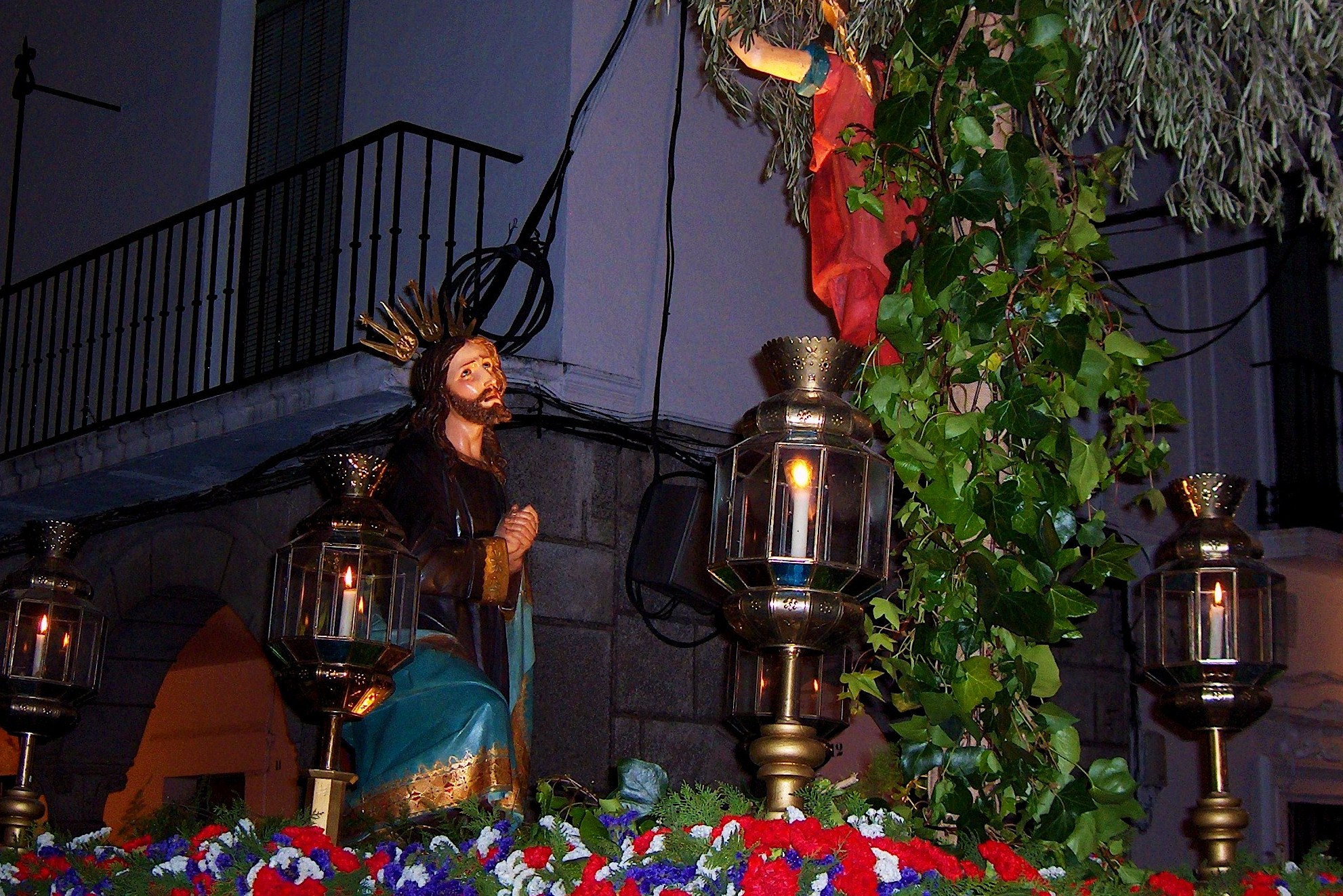 El huerto